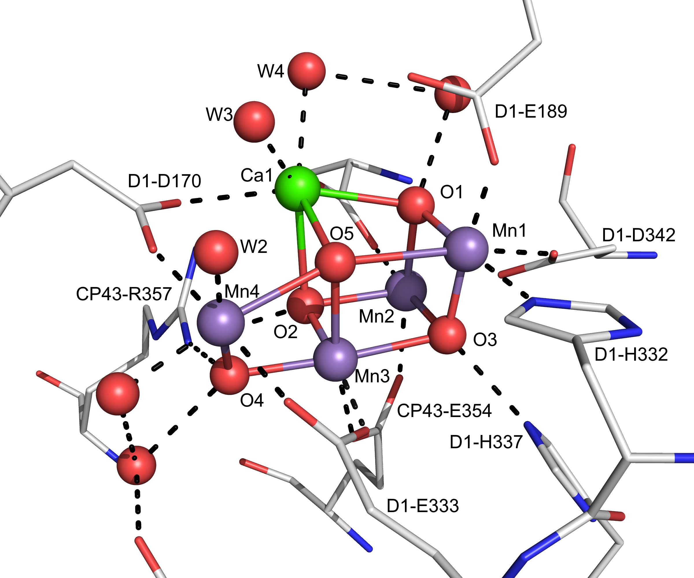 Crystal structure of the oxygen evolving complex (OEC) of Cytochrome P450 at 1.9 Angstrom resolution. This is the highest resolution structure of the OEC as of 2016.